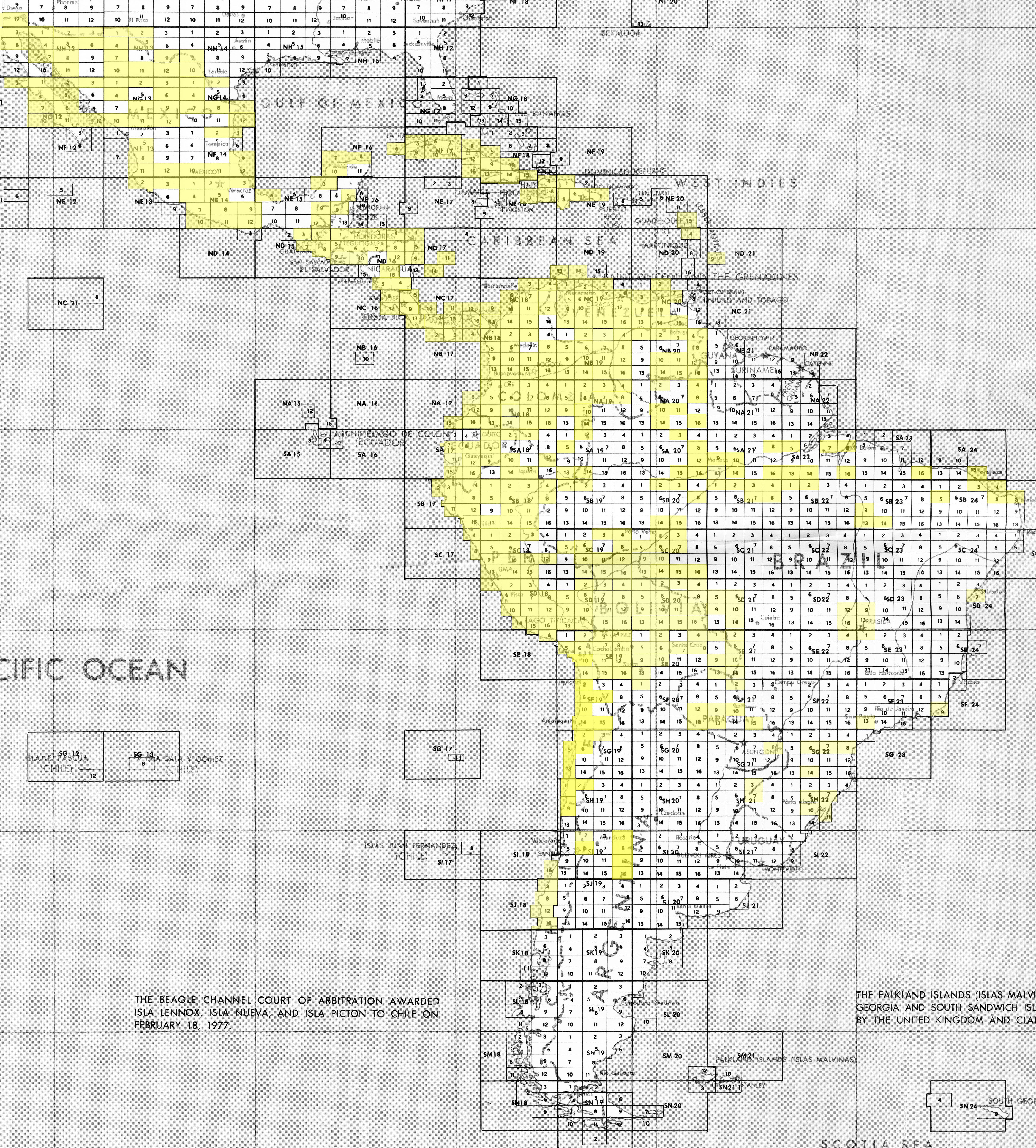 index map for Join Operations Graphic